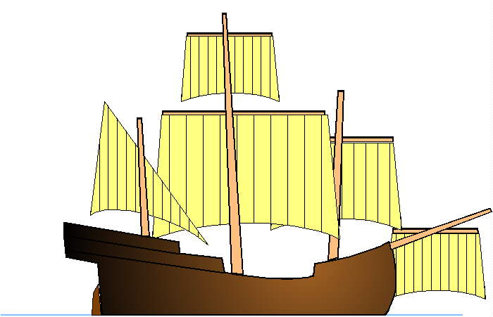 The most common rigging type on carracks Created with Designer 4.0 Artist:Islander